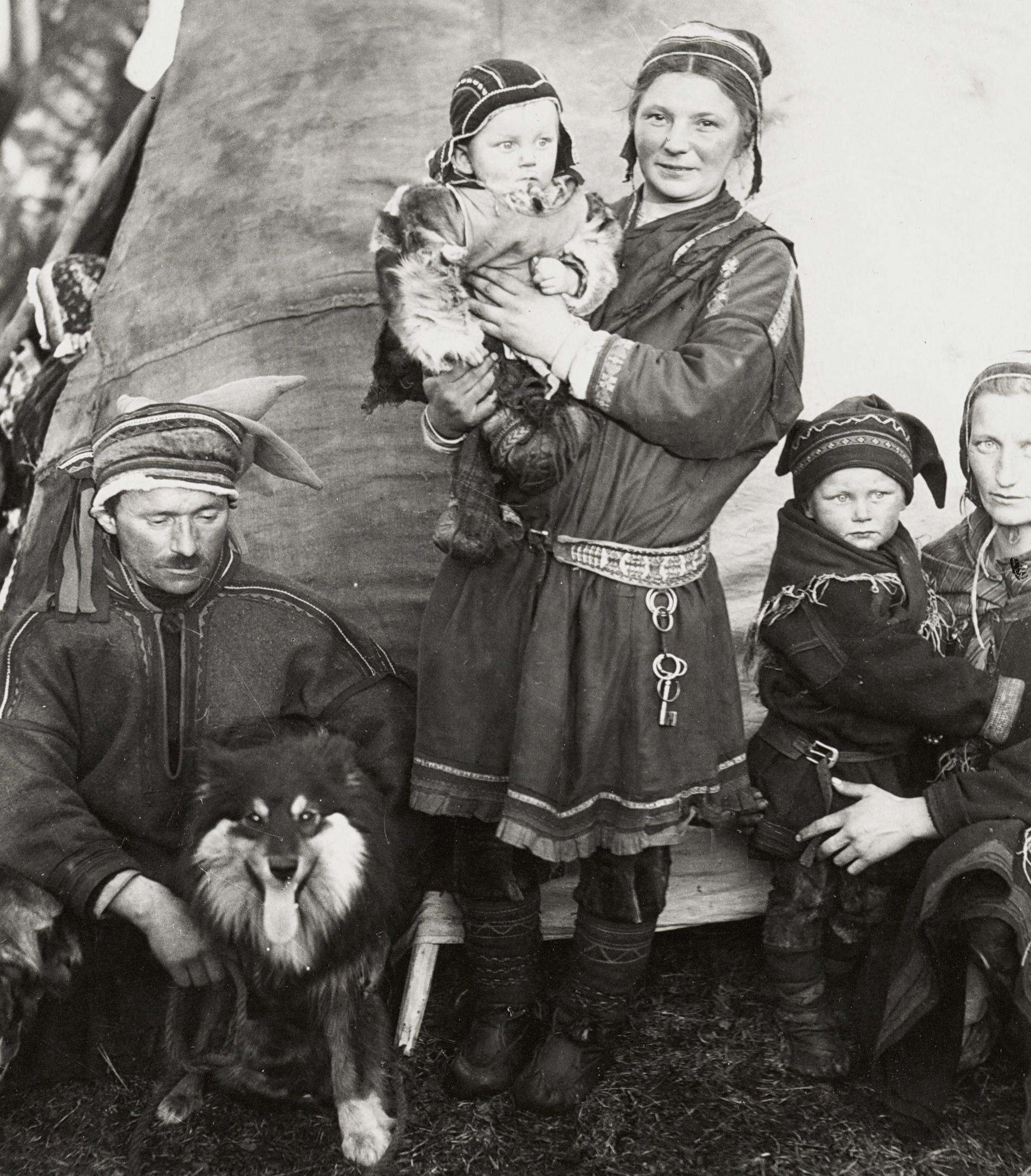 A Nordic Sami or Laplander family in traditional costumes and a dog from Finland. Text on the photo card is "Lappalaisperhe. Lappfamilj". Samisk familie fra Finland i tradisjonelle klær. Norden.